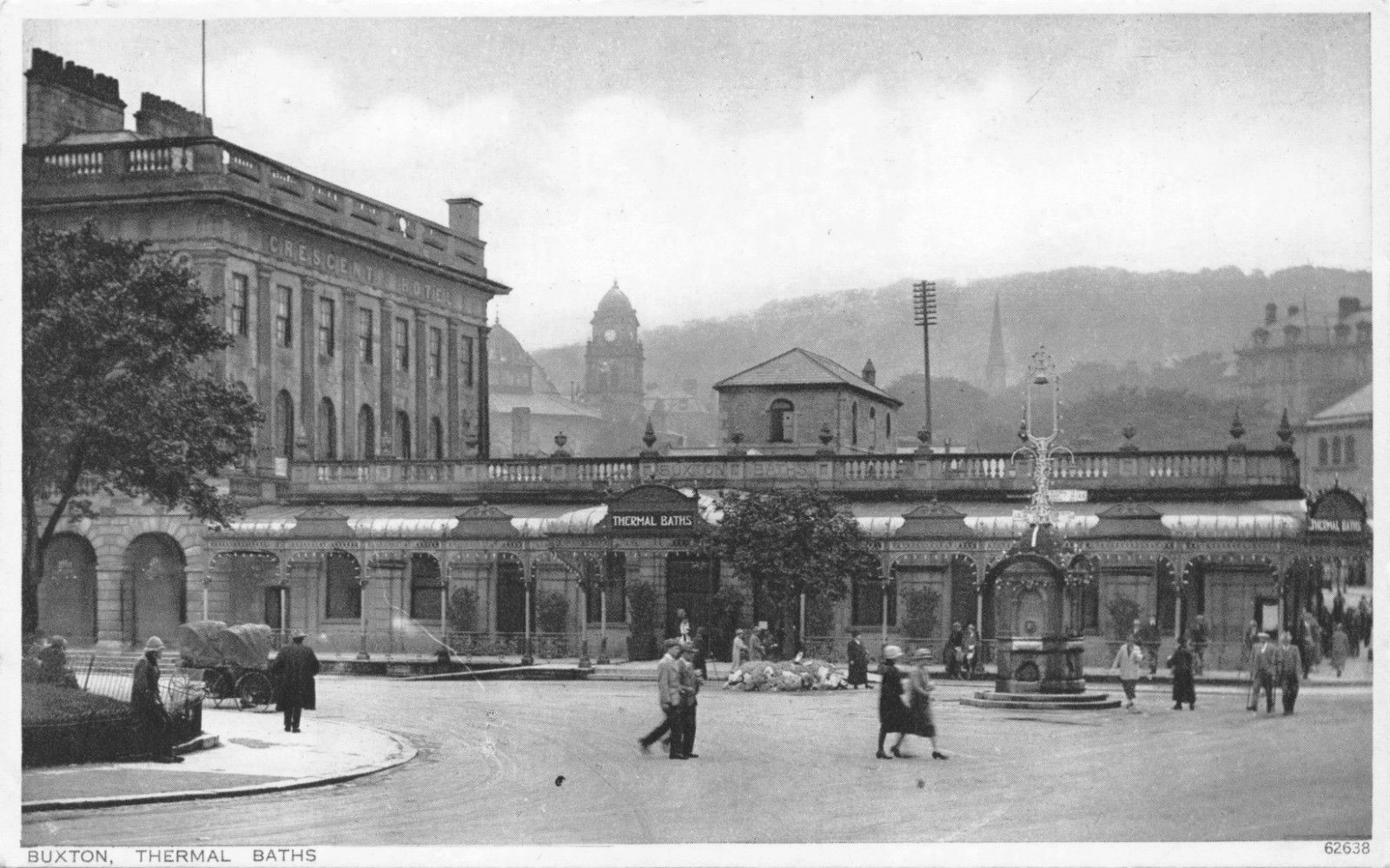 Buxton Thermal Baths and Crescent Hotel in early 20th-century